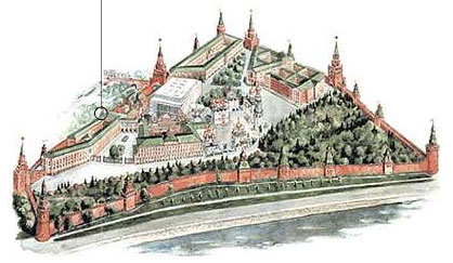 Overview map of the Moscow Kremlin. Location of Komendantskaya Tower marked.